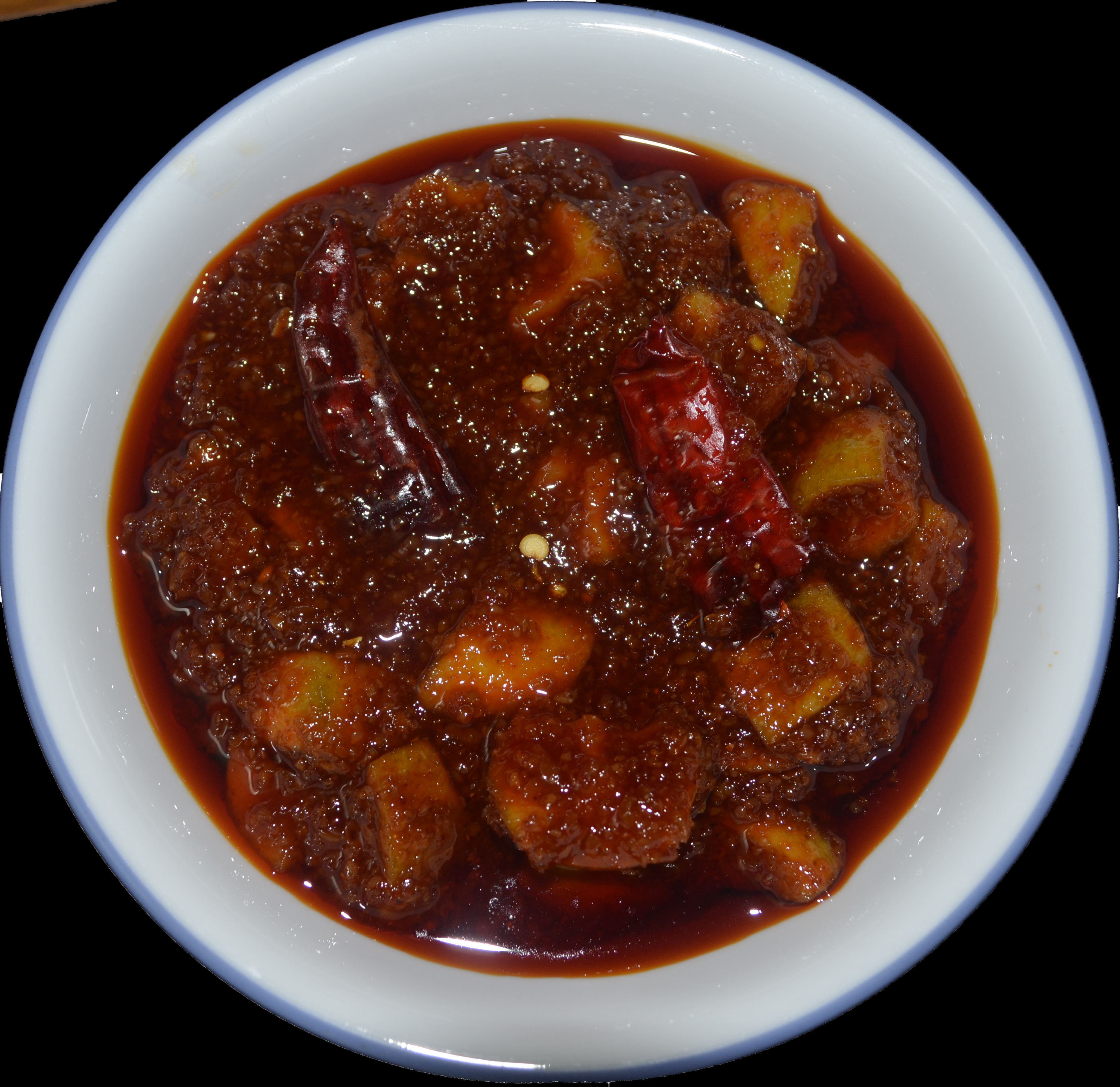 Yummy... Gujarati style mango -achar. Goes well with roti, rice or any main dishes as specially Khichdi